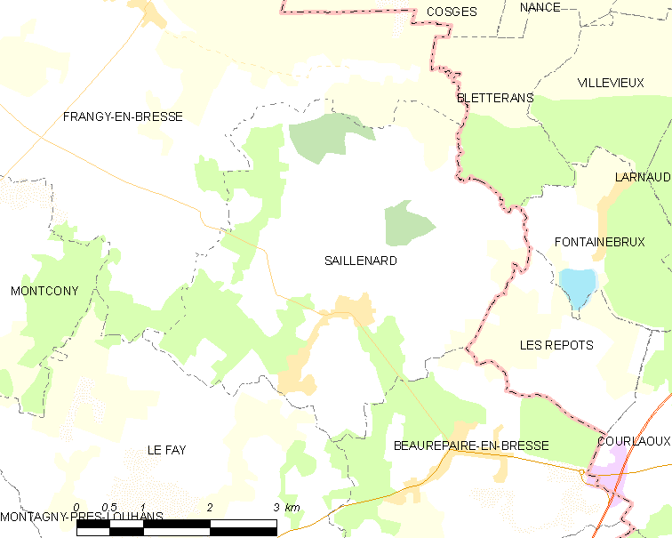 Map of French municipality